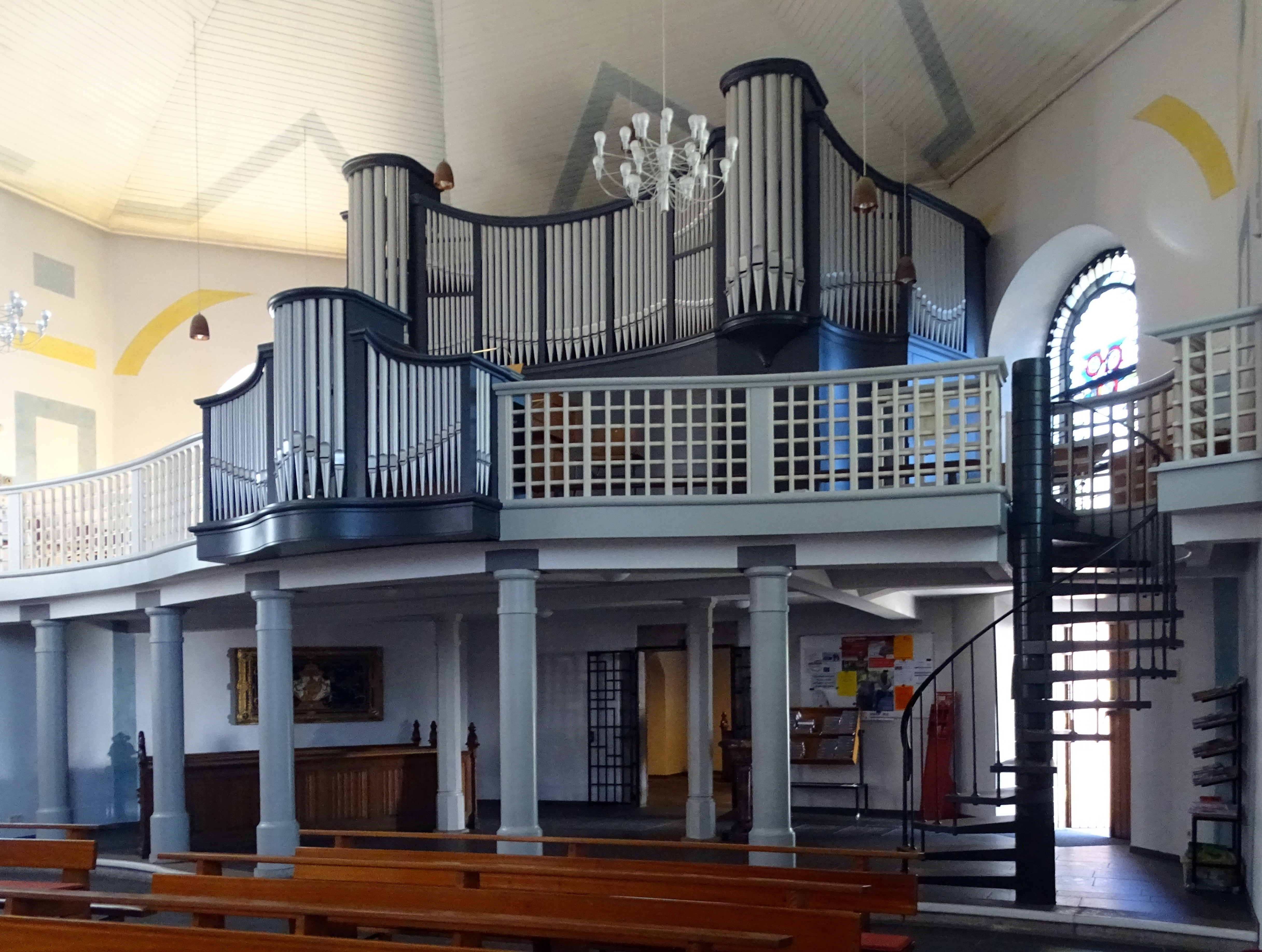 Catholic parish church of St. Matthäus in Alfter: view of the gallery and the organ